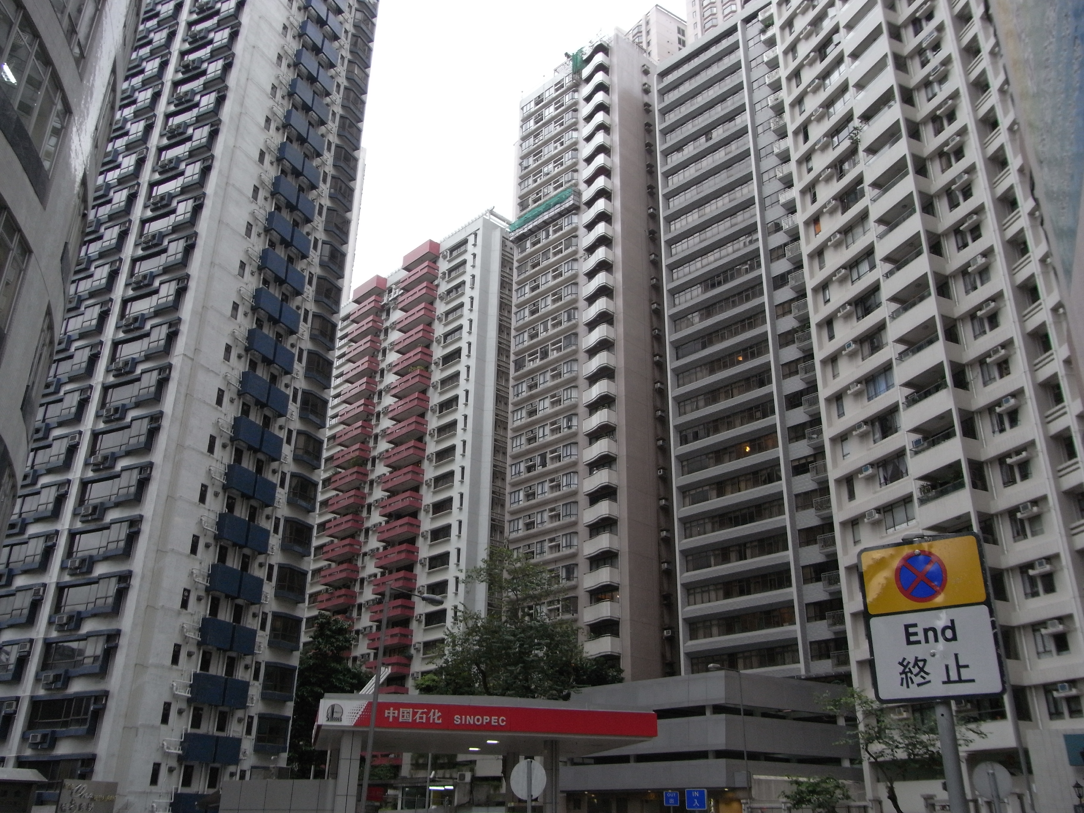 香港島中環zh:半山區